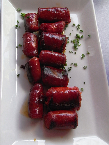 A plate of chistorra, a Basque sausage commonly used in tapas.